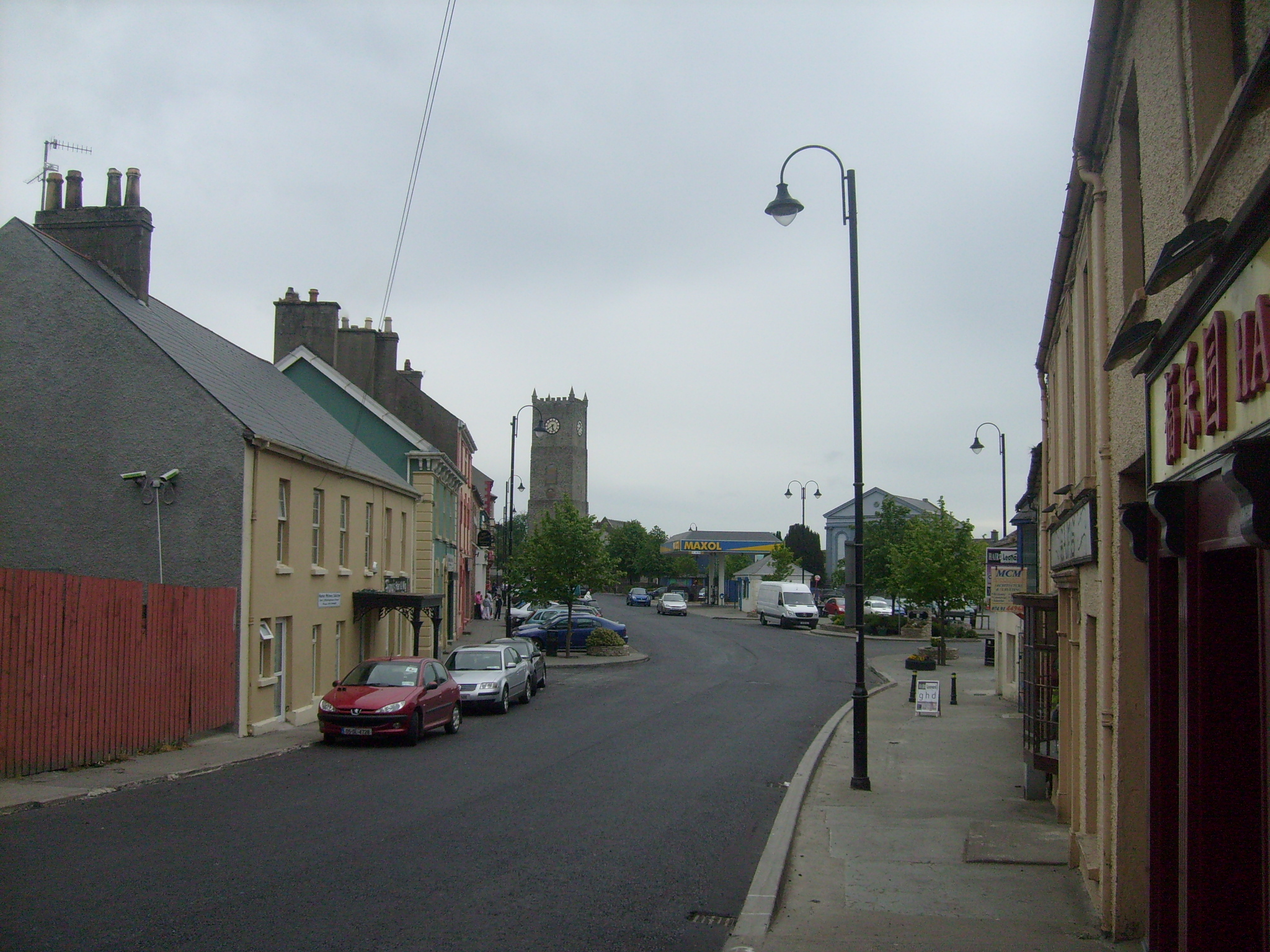 Raphoe, Co. Donegal, IrelandGaeilge: Ráth Bhoth, Co. Dhún na nGall, Éire